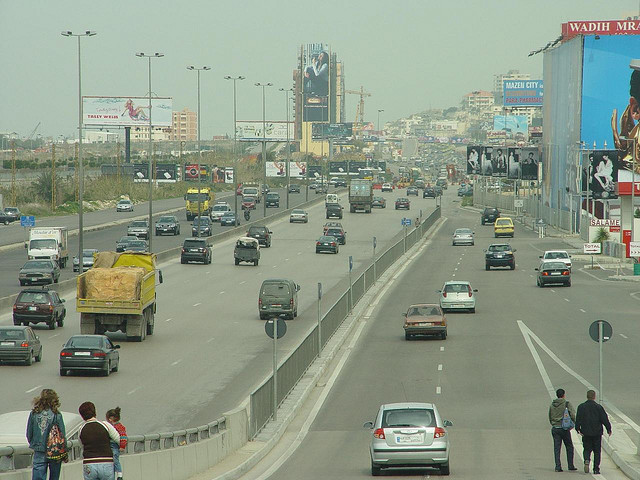 ABC Mall on the right in the ugly blue. Notice no one drives in lanes. but on the lines. as if the paint on the road is for decoration only. this is not because the photo was taken with wrong timing. They drive like that. Notice that this ramp does not exist on the sattelite geotag of Yahoo yet. (photos in SET unfiled because they're ugly)